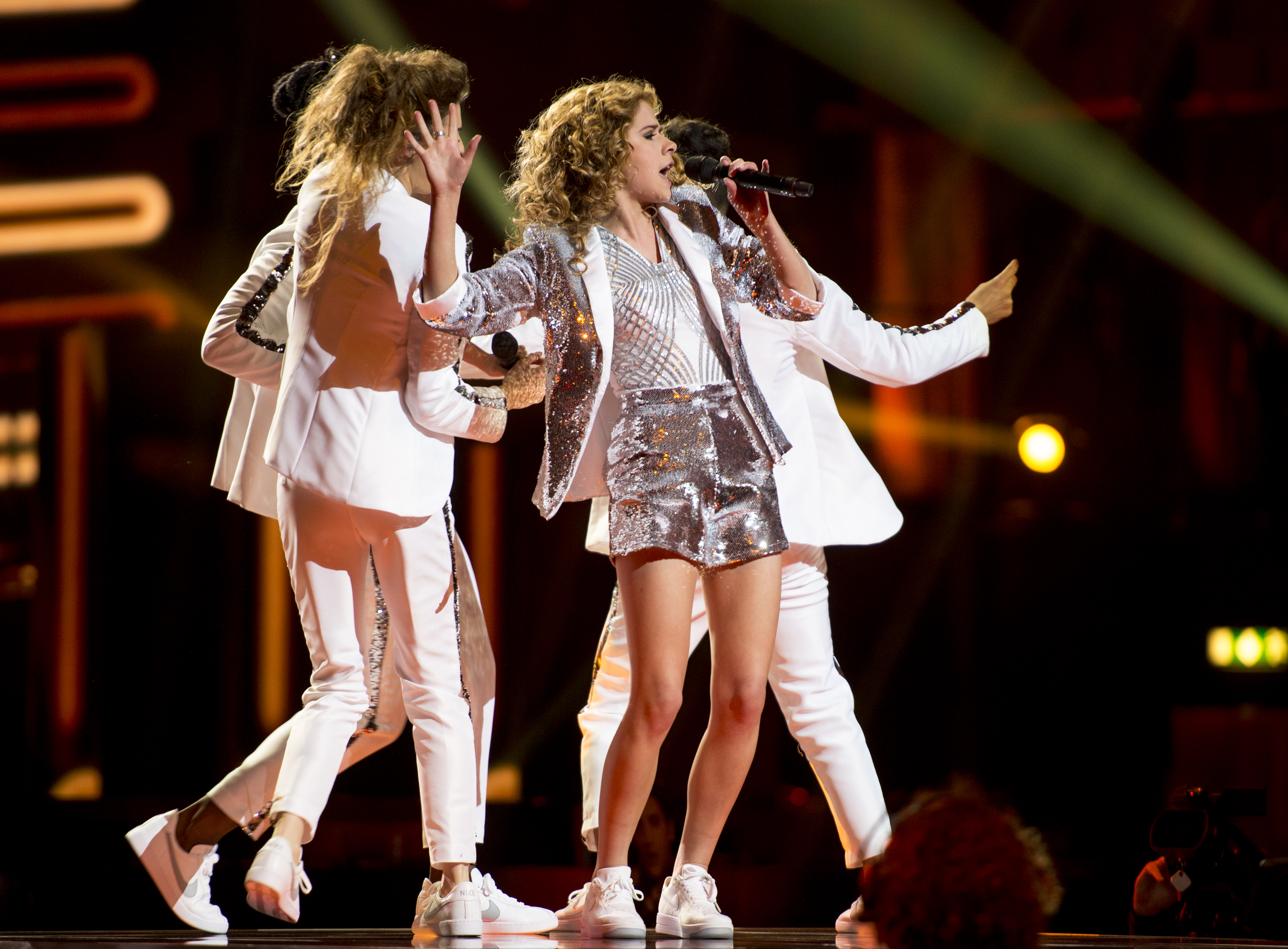 Laura Tesoro representing Belgium with the song "What's The Pressure" during a rehearsal before the second semi final of the Eurovision Song Contest 2016 in Stockholm. (Help translate this text)